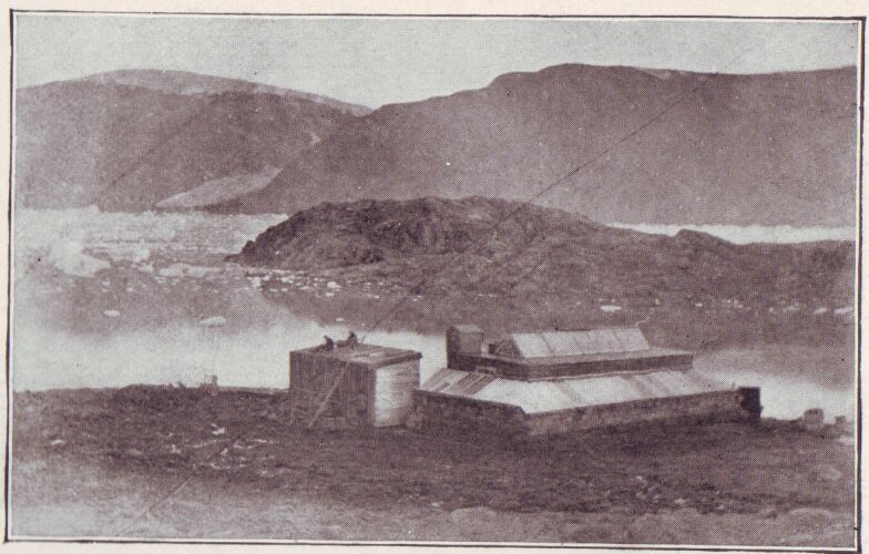 Josephine Diebitsch Peary: The Snow Baby, Frederick A. Stokes Company, New York. Page 19, Abnighito's Birthplace - “Such a Funny House it was”